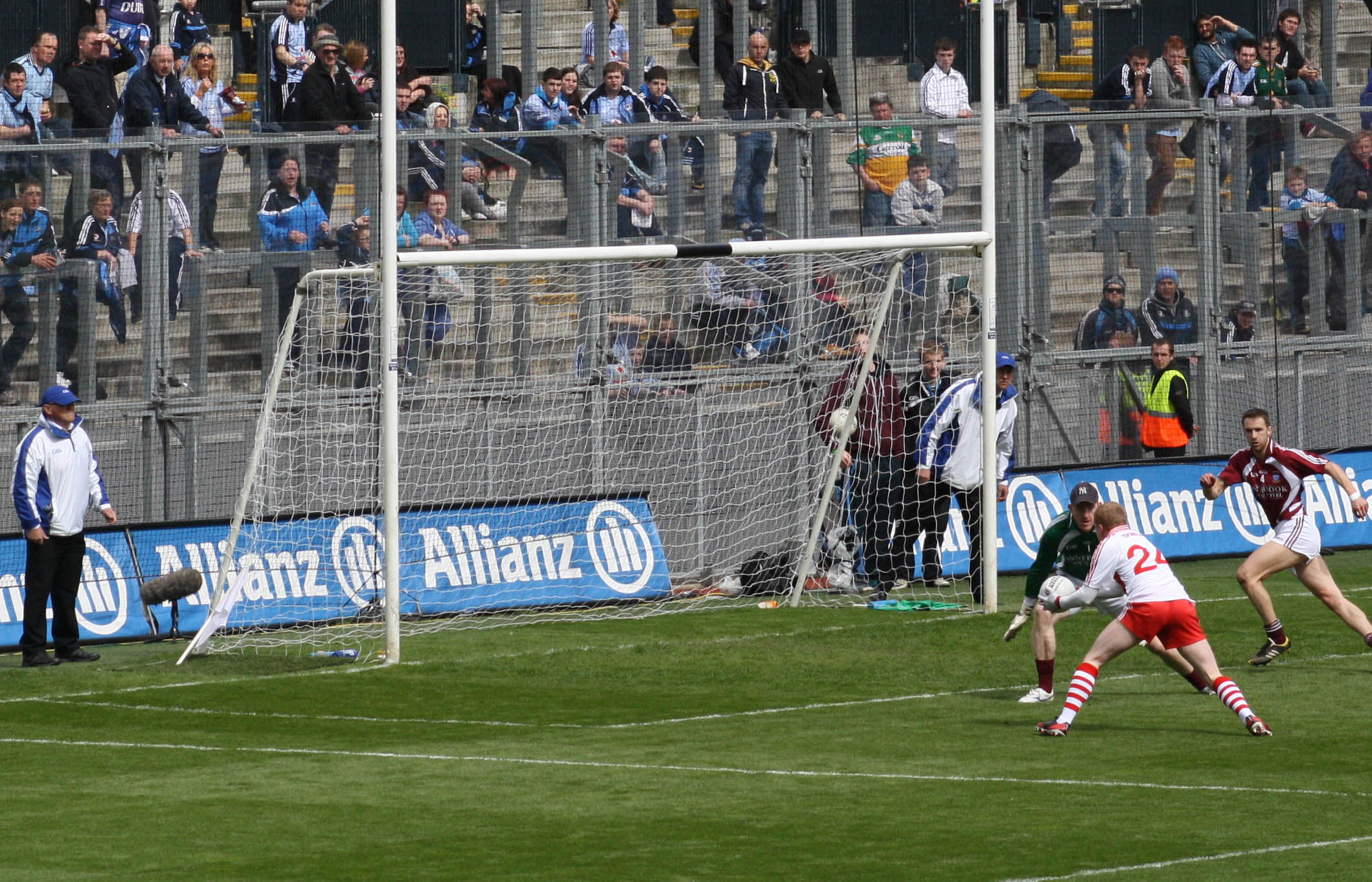 2013 National Football League Division 2 - Final - Derry vs Westmeath 28 april 2013 - Croke Park (Dublin)